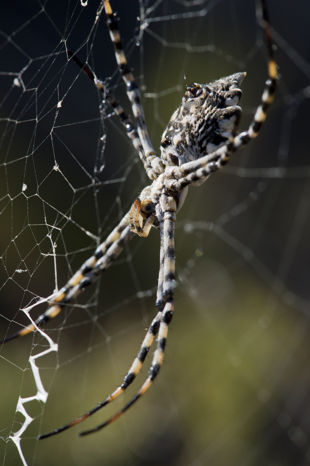 argiope lobata photographed in Chiclana, Southern Spain